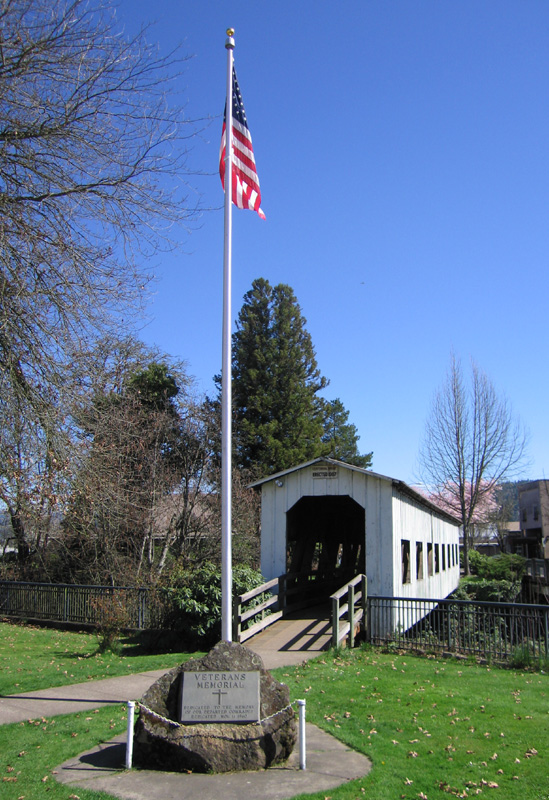 Photograph of the Centennial Bridge and Veterans Memorial in Cottage Grove, Oregon.